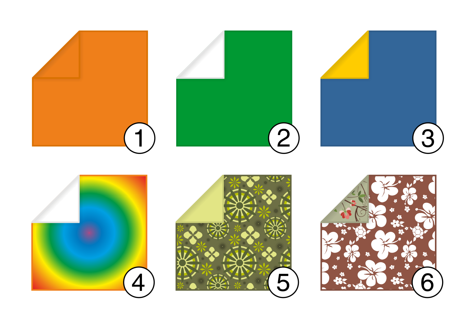 Types of Origami paper (1) simple colored paper, (2) white-backed single color paper, (3) dual-color paper, (4) white-backed patterned paper, (5) solid color-backed patterned paper, (6) double patterned paper